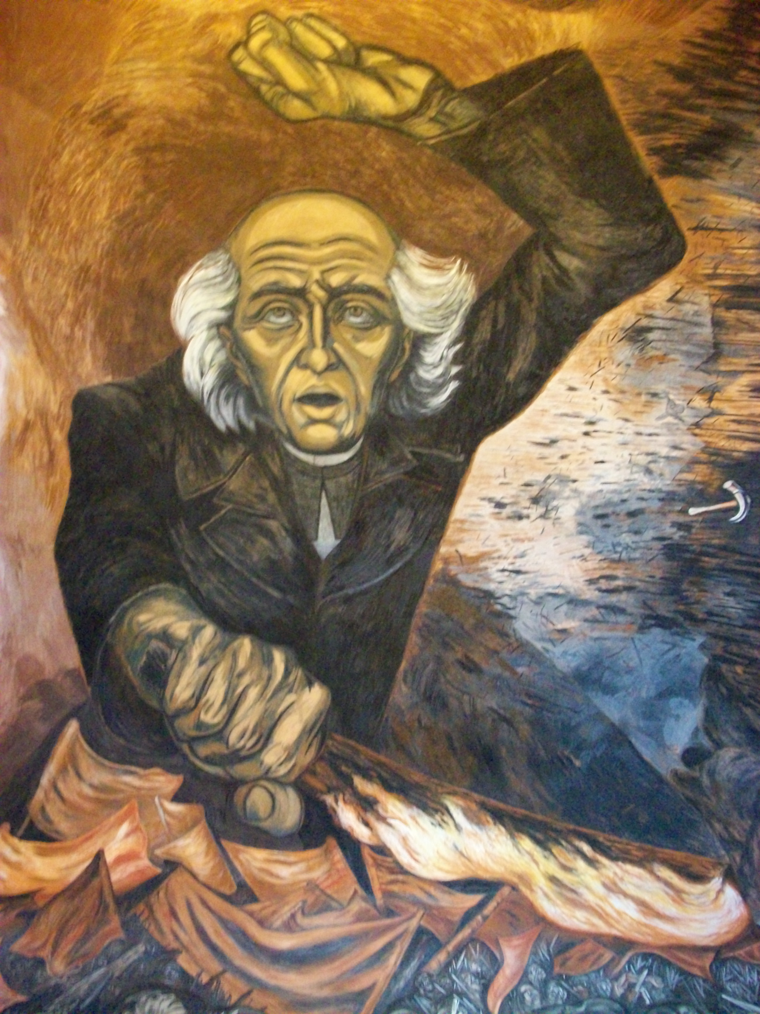 "Hidalgo". Mural by José Clemente Orozco in Guadalajara, Jalisco.